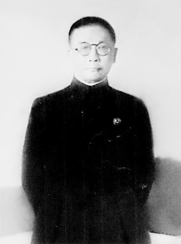 Li Kenon 李克农，中共隐蔽战线的龙潭三杰（李克农、钱壮飞、胡底）之一